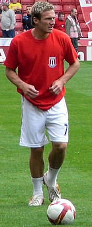 image of Liam Lawrence